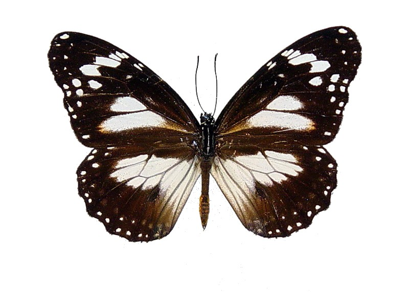 Danaus affinis, Great Sandy National Park, Australia, Dec. 2005.